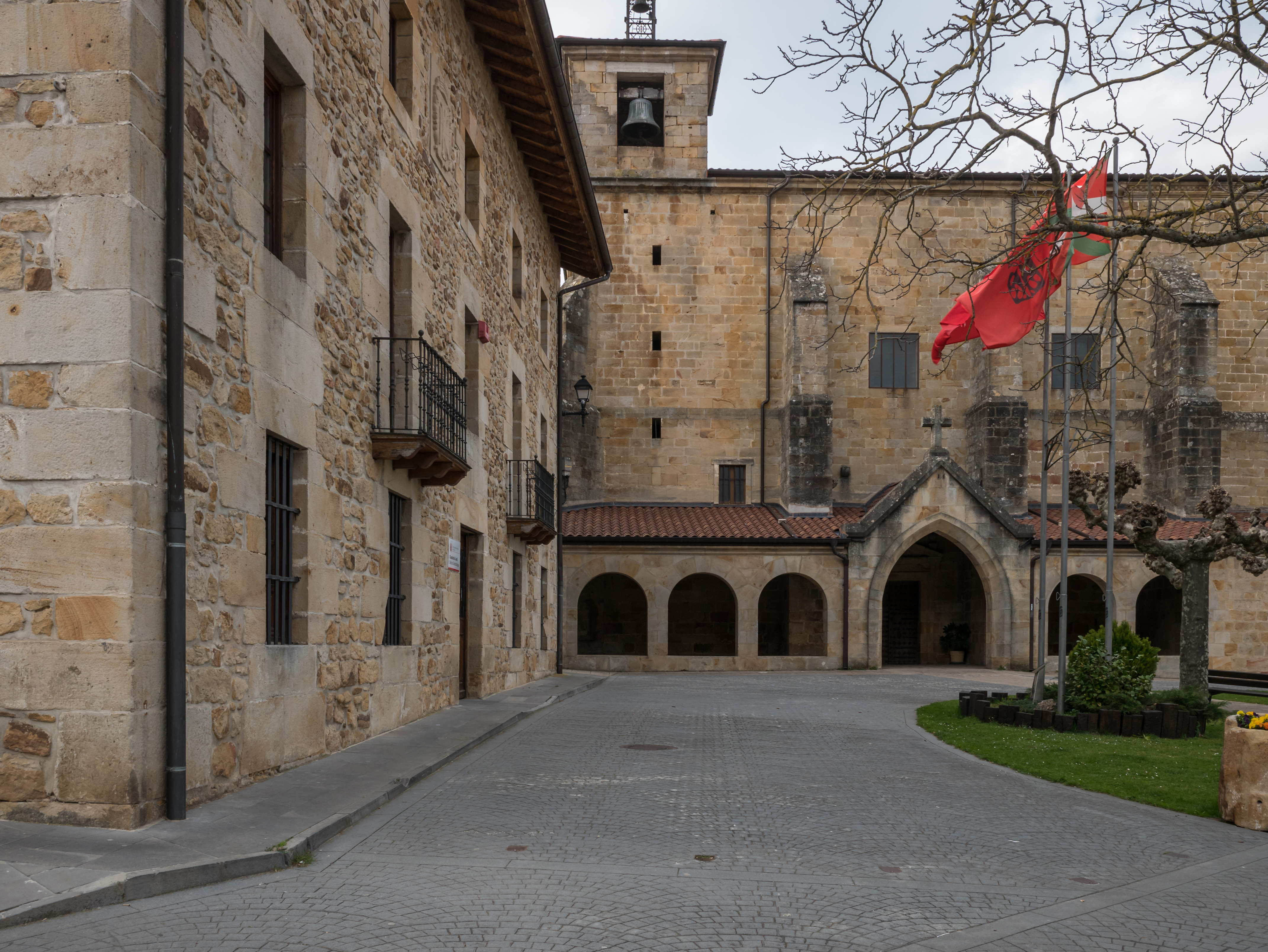 Church of Ziordia, the town hall on the left. Navarra, Spain